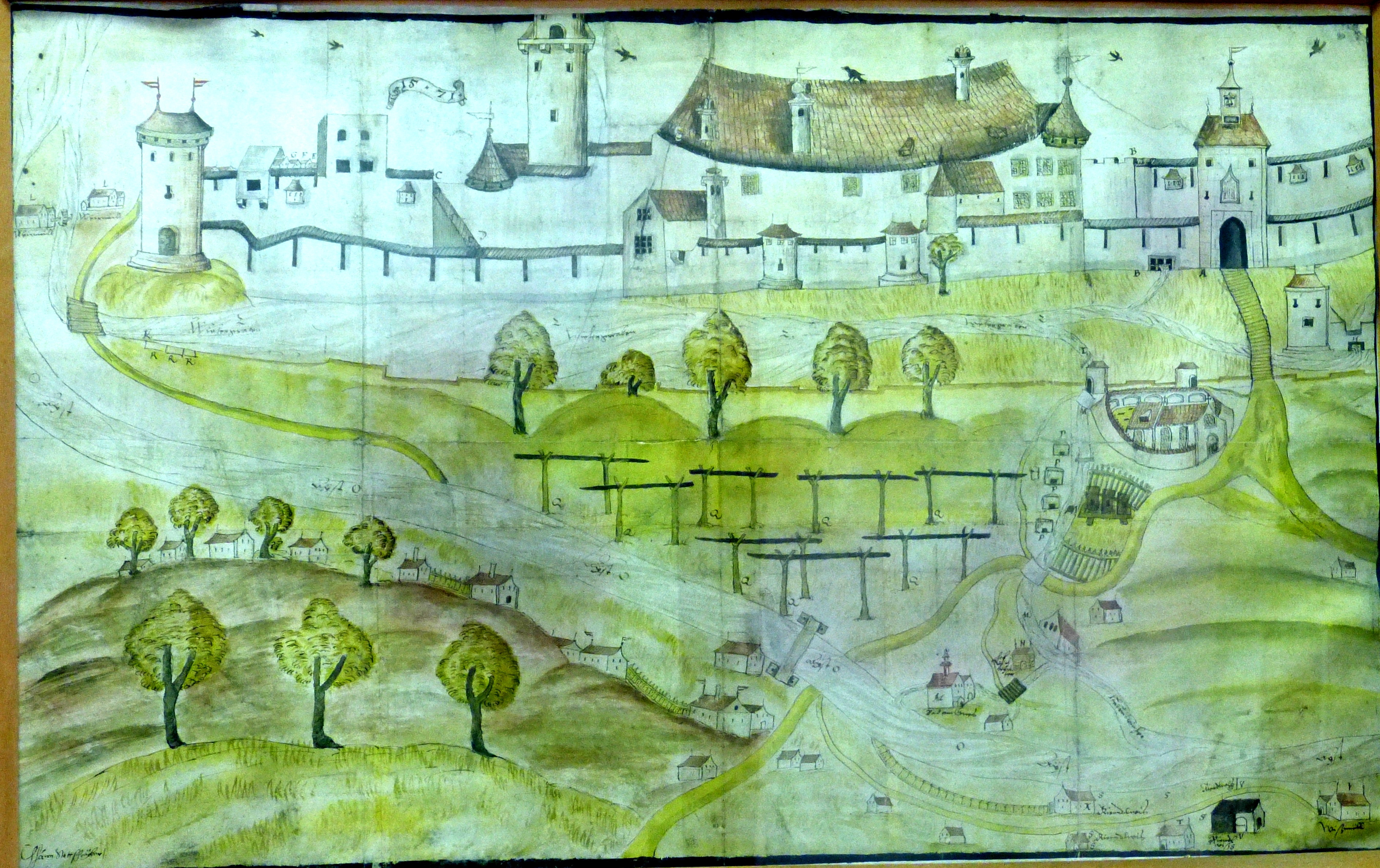 Freistadt ( Upper Austria ). Mühlviertler Schlossmuseum: Historical view of Freistadt ( 1571 ).